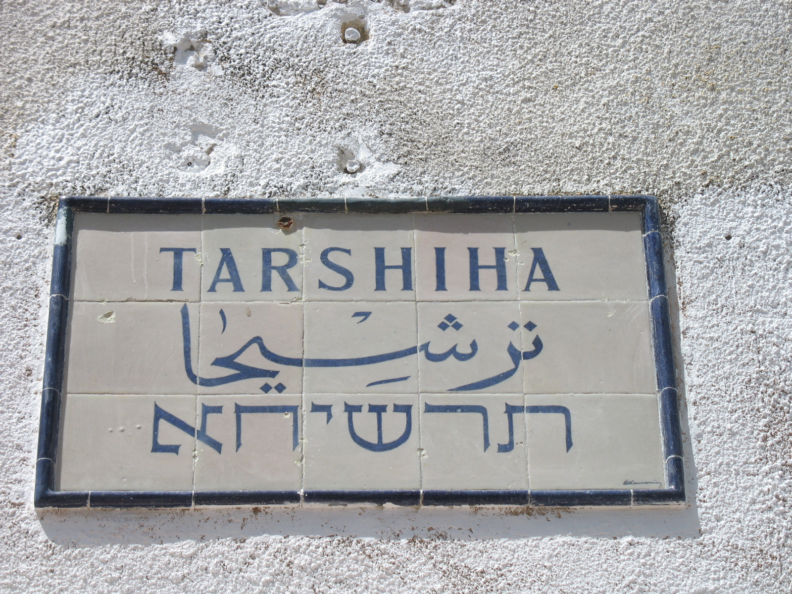 The original sign with the signature of the ceramic artist Davit Ohannessian